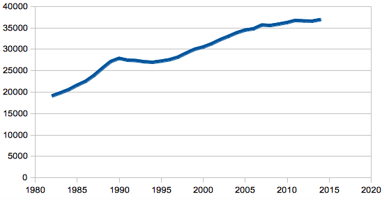 Traffic performance on highways in 1982–2014. Mill automobilekm/year